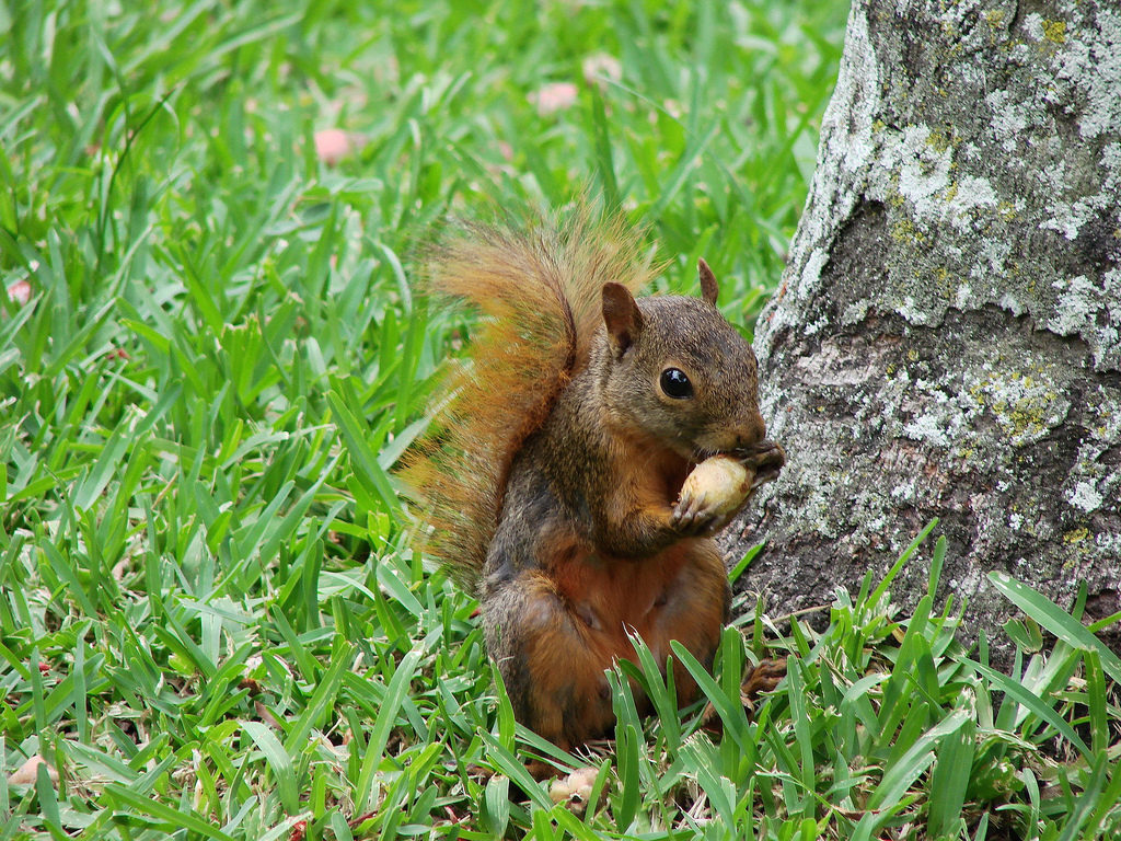 A squirrel in Caracas, Venezuela